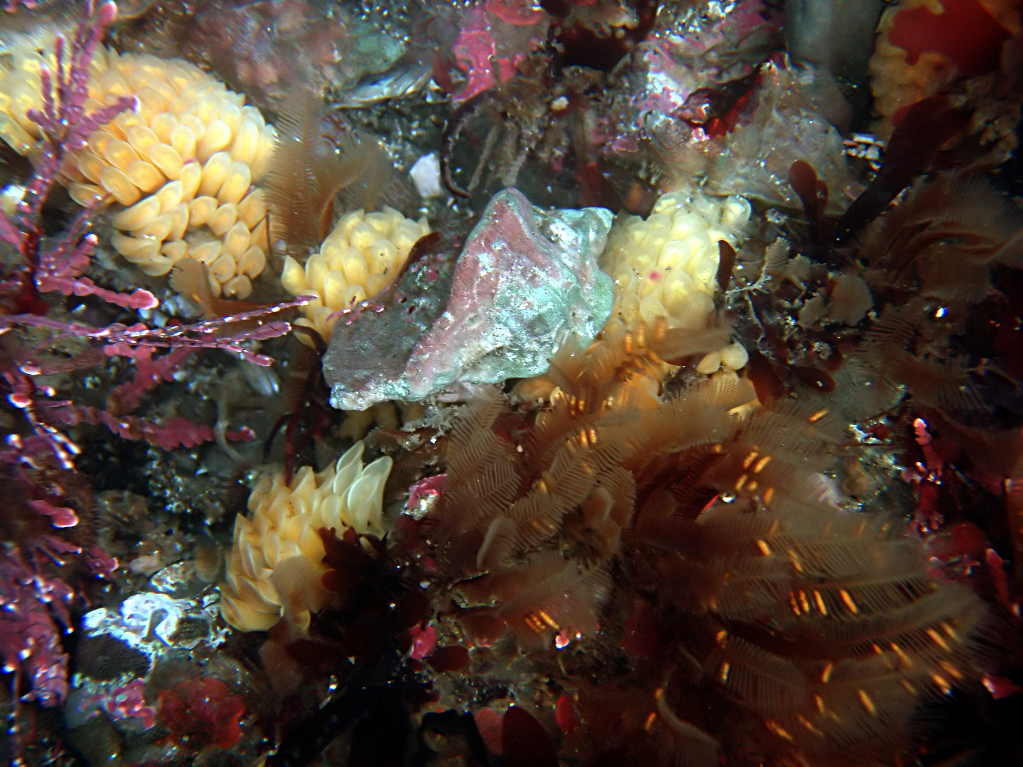 Pteropurpura trialata is laying the eggs; the little whitish blobs inside each one are the eggs